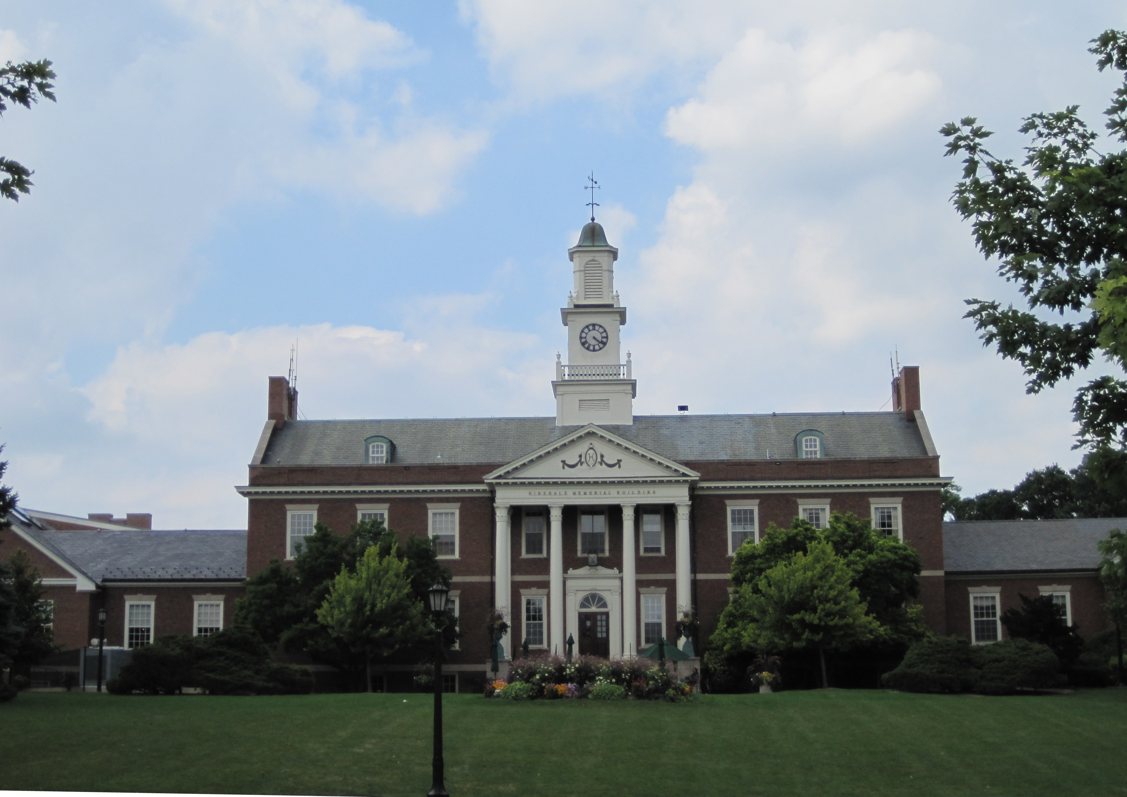 Taken July 27, 2010 by User:Teemu08